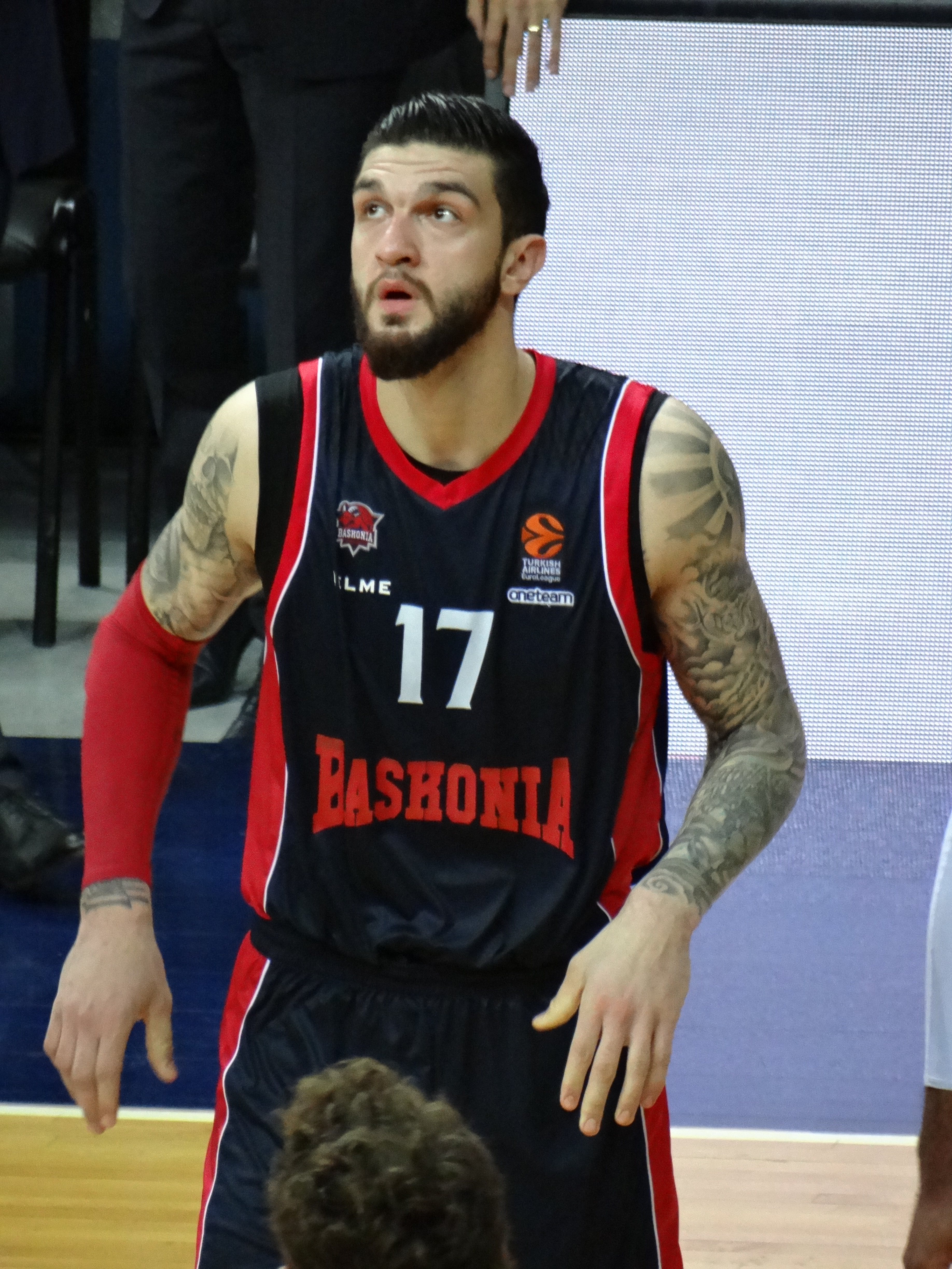 Vincent Poirier 17 Saski Baskonia 20180105